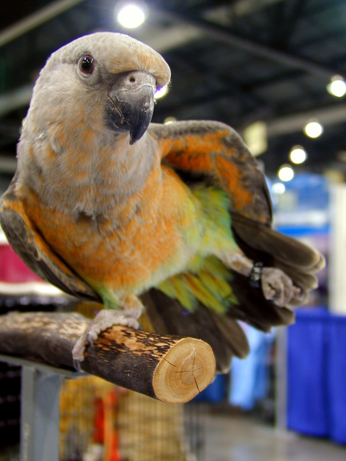 Red-bellied Parrot; a male juvenile pet parrot on a wooden perch stretching.